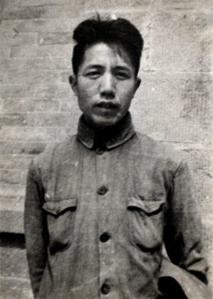 Yang Zhou (周扬 Zhou Yang, 1908–1989) in 1940